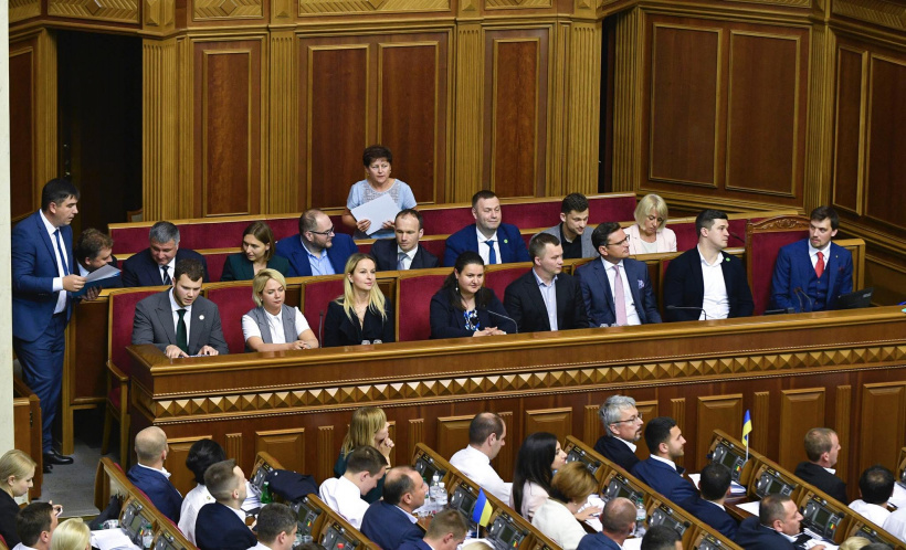 Family photo of members of Honcharuk Government